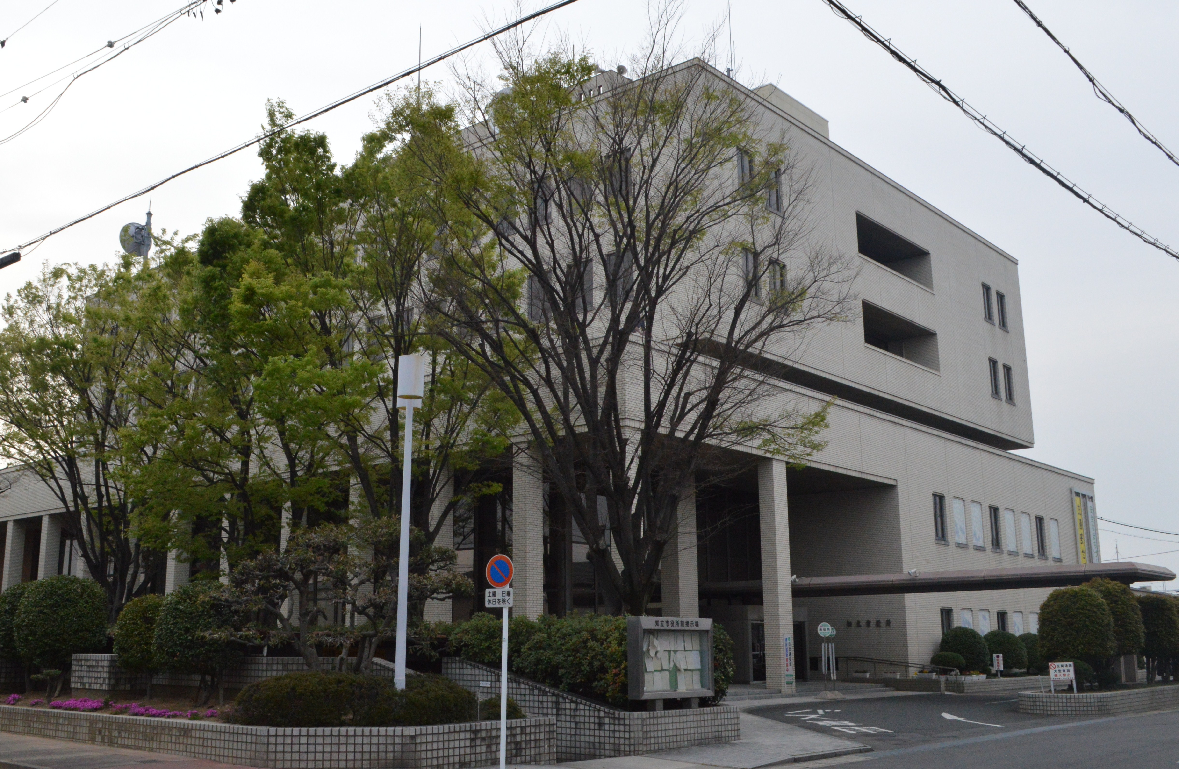 Chiryu City Hall in Aichi prefecture, Japan.